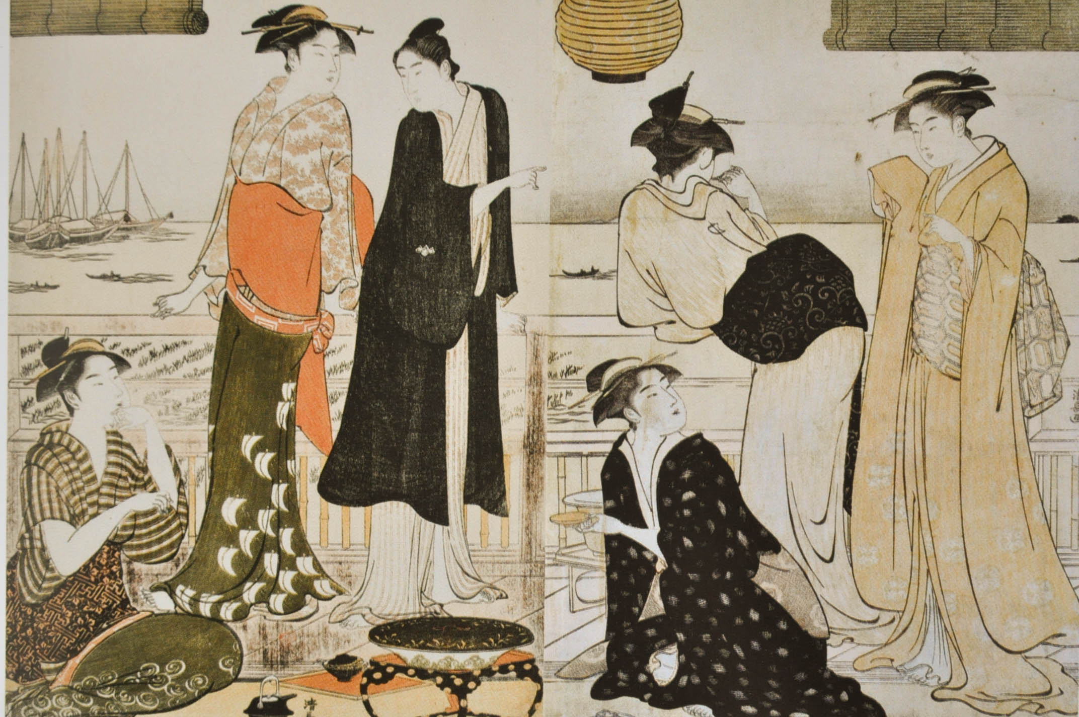 Sixth month of the series Minami jûni kô. Diptych by Kiyonaga (1784)